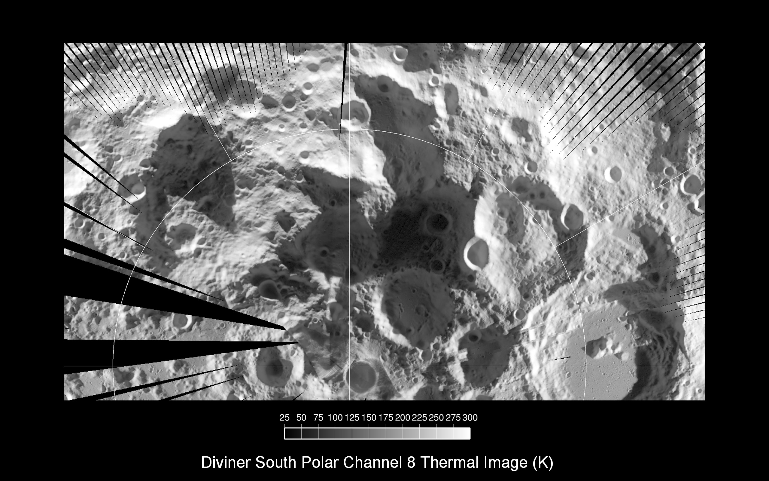 Lunar south pole temperature as imaged by Diviner. Cabeus Crater, de Gerlache Crater, Haworth Crater, Shackleton Crater, Shoemaker Crater, Faustini Crater, Nobile Crater, Amundsen Crater.